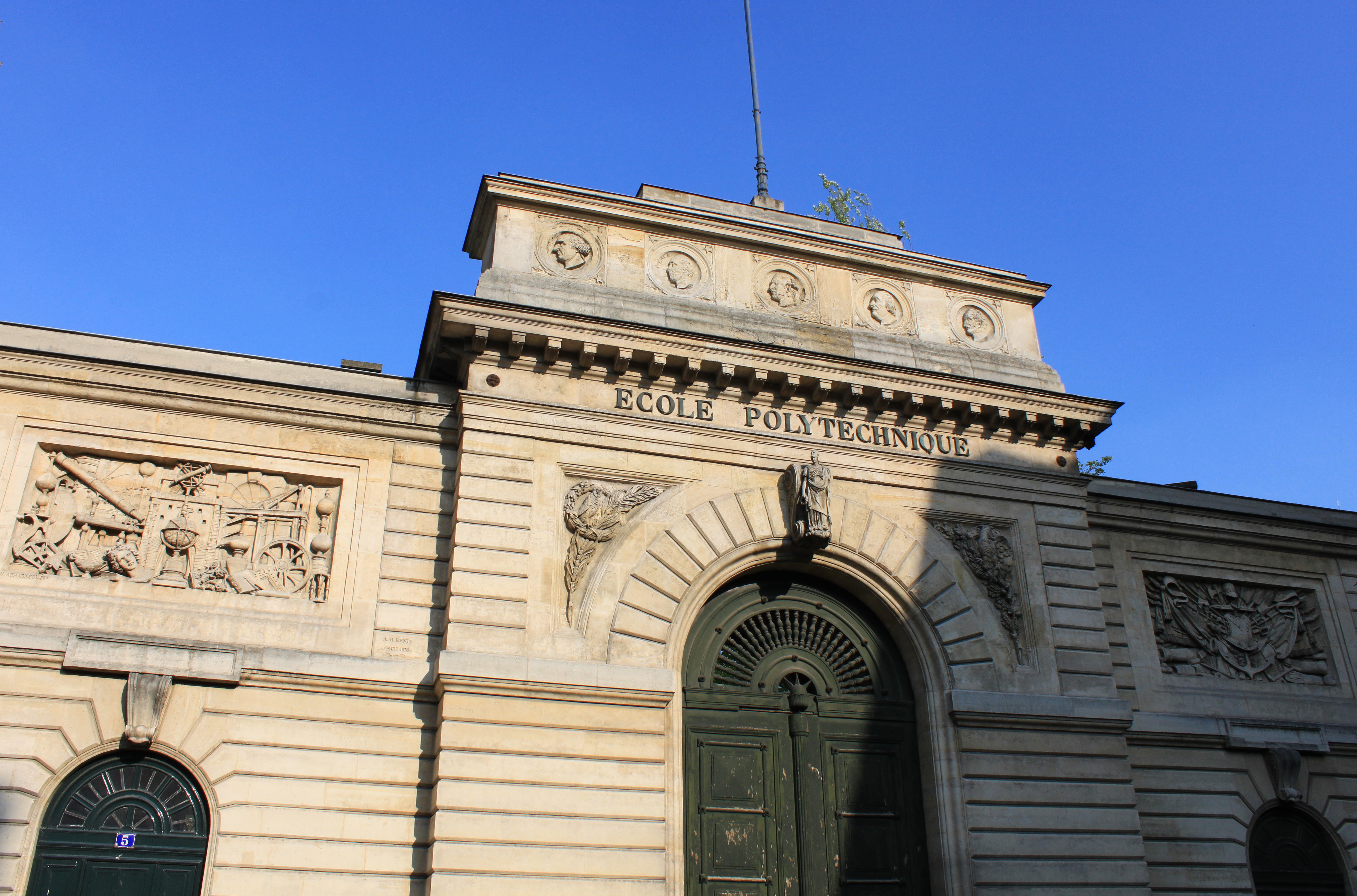 Entrance of the former buildings of the École Polytechnique (now located in Palaiseau), rue Descartes, Paris. Built by architect André Marie Renié (1789-1855) between 1835 and 1838.